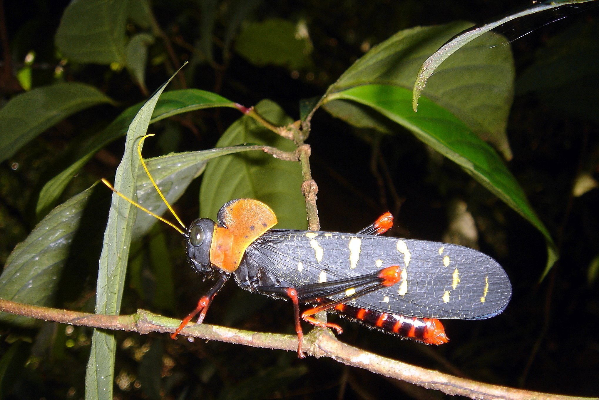 An unidentified insect manifests aposematism in the Lower Rio Branco-Rio Jauaperi Extractive Reserve, Brazil.